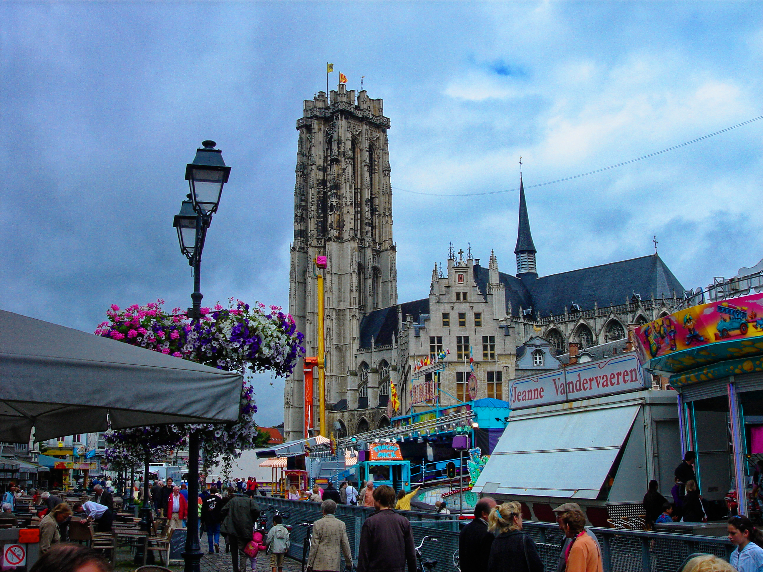 Mechelen - Grote Markt - View NW towards St. Rombouts Kathedraal